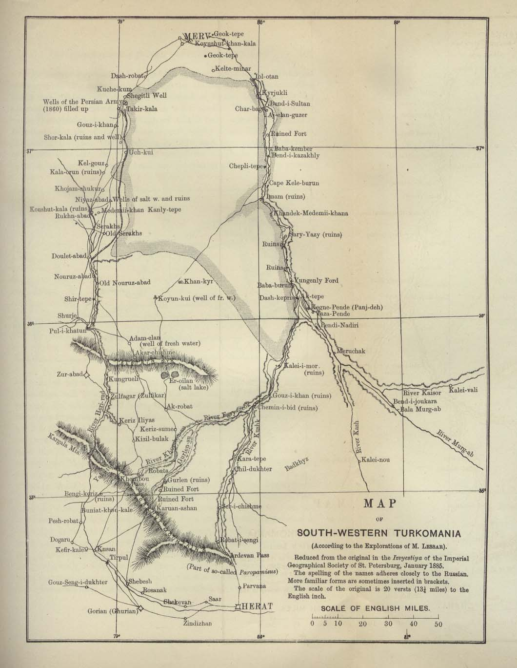 "Map of South Western Turkomania" (now Turkmenistan) from the Scottish Geographical Magazine. Published by the Scottish Geographical Society and edited by Arthur Silva White. Volume III, 1887.